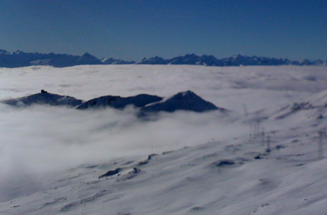 seen from north: Crap Masegn is the peak to the right of the group of three, the left one carriing the aerial cableway station called Crap Masegn. To the right (westerly) a power line crosses the area which claims to be the highest powerline in the alps.